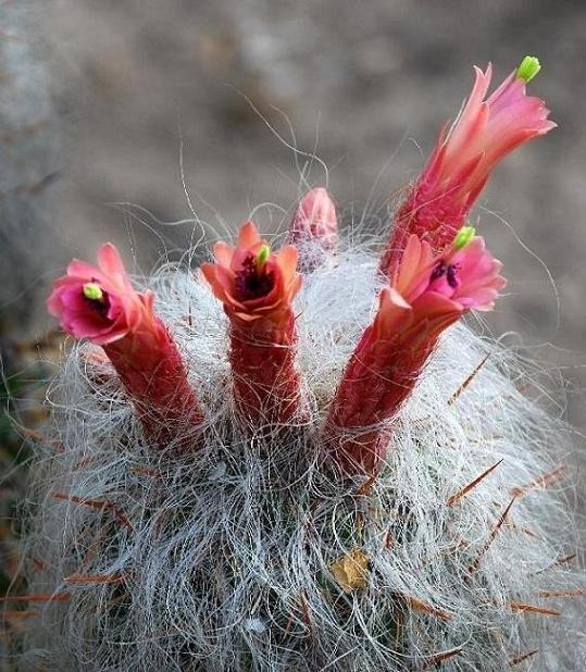 Flowering Cactus